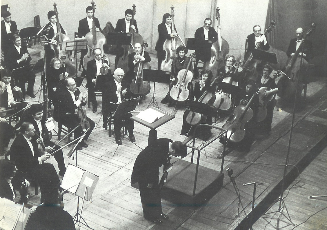 Alberto Jorge (musician) with Symphonic Orquestra of Oporto